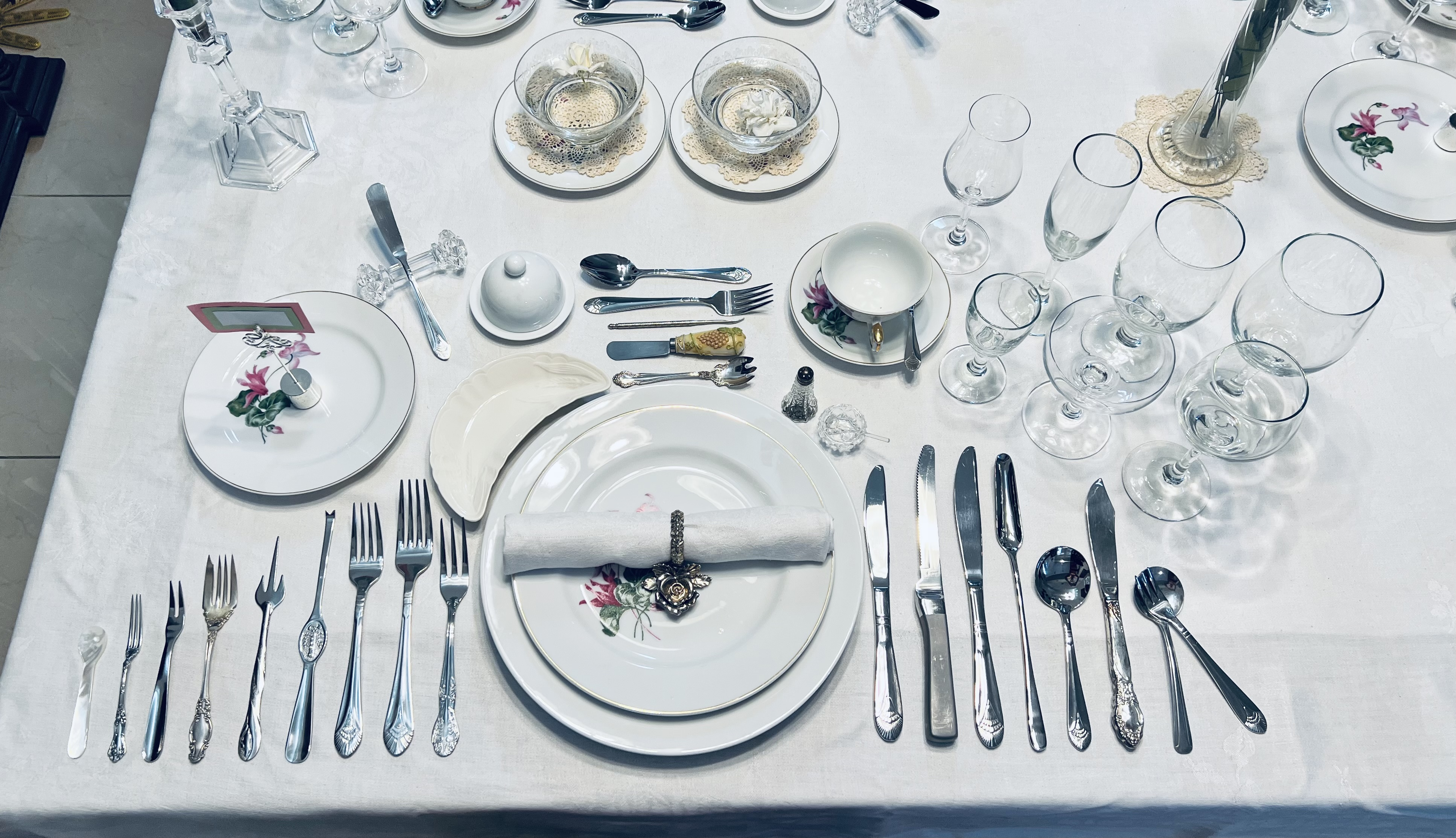 13 course place setting